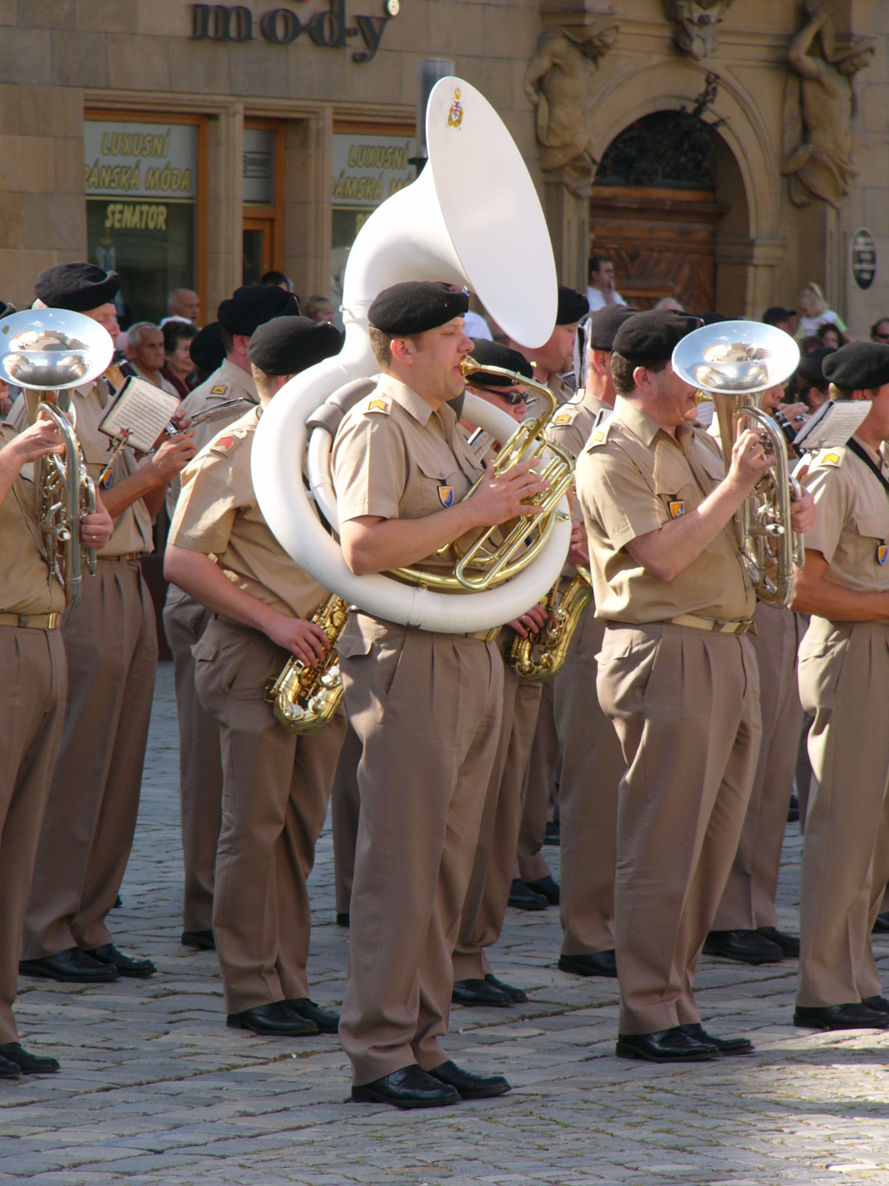 Luxembourg Military band. Sousaphone player in foreground. For the uniform see also: [1]